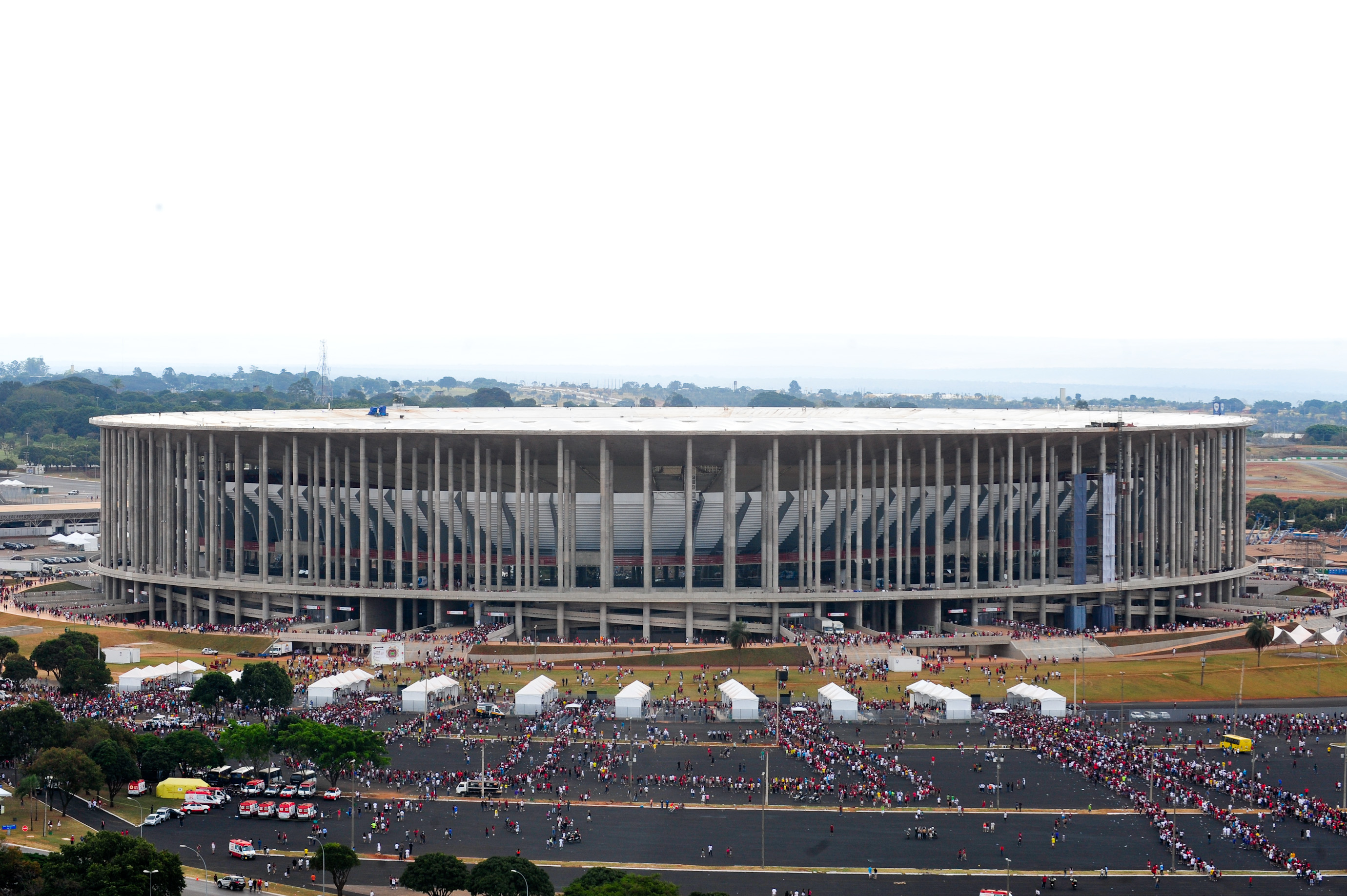 Mané Garrincha Stadium.